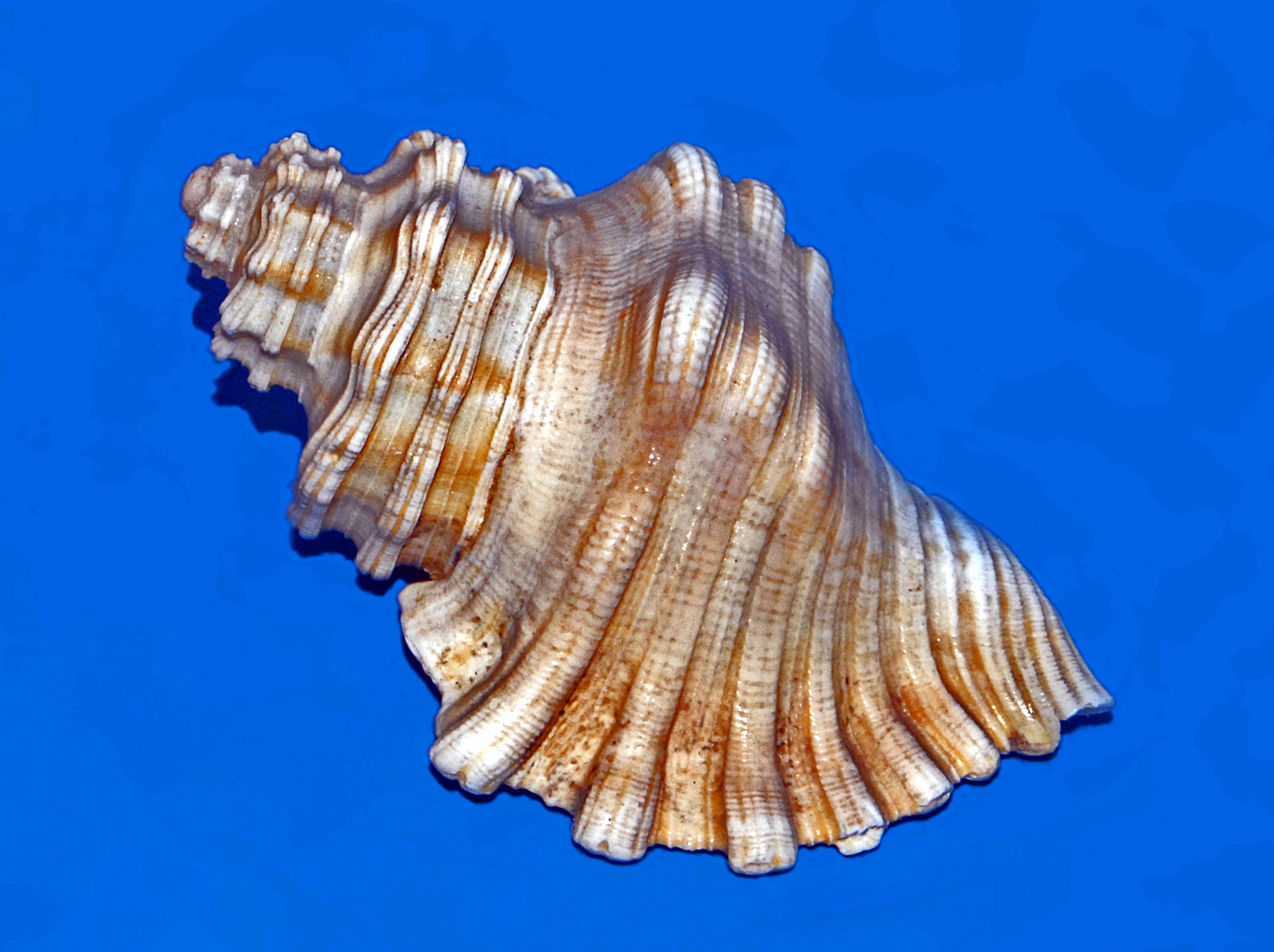 A shell of Linatella caudata (synonym Cymatium cutaceum) from Sicily, on display at the Museo Civico di Storia Naturale di Milano